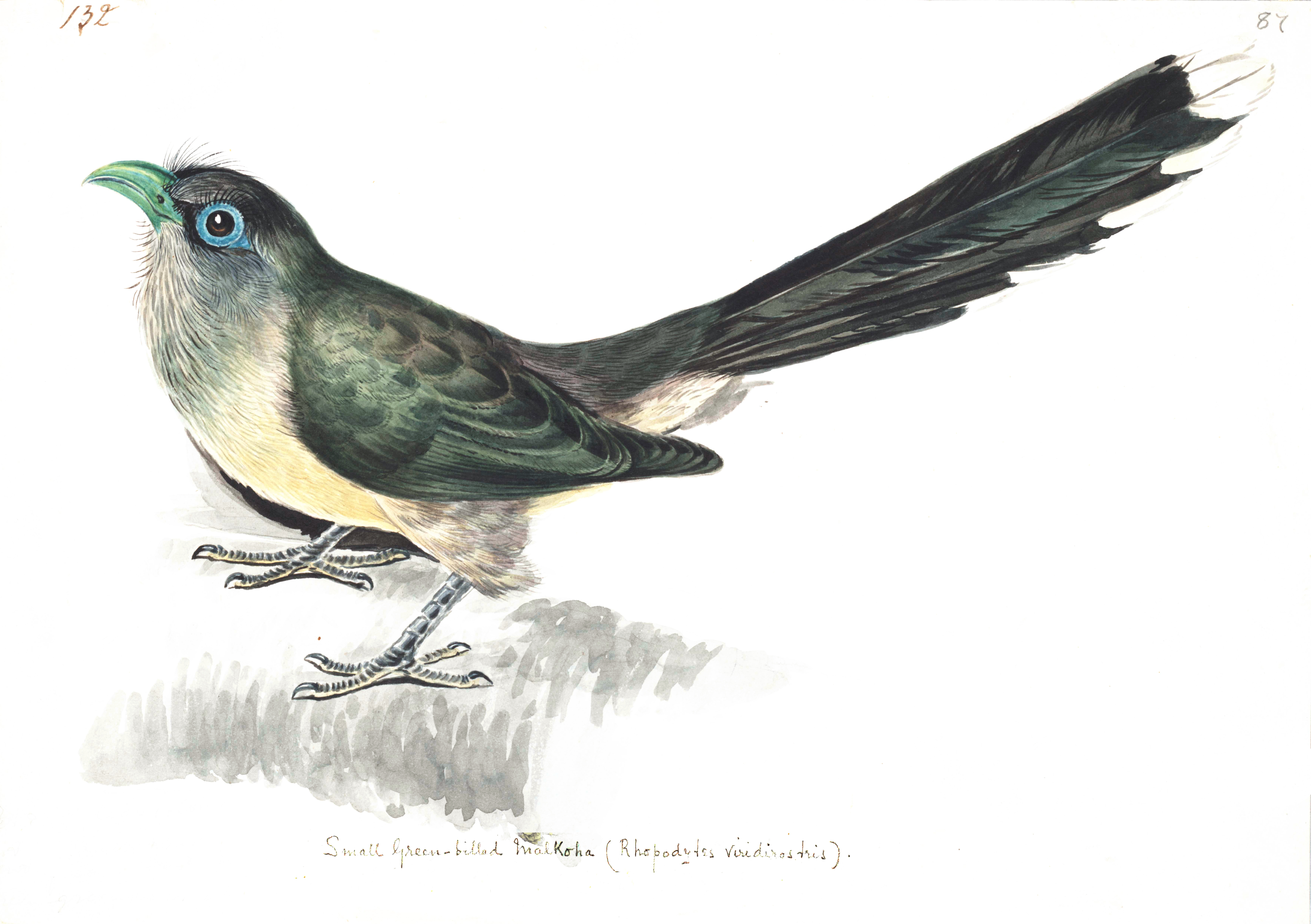 Small green-billed malkoha by Elizabeth Gwillim